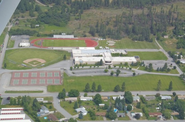 East Valley High School Spokane, Washington, view from a plane.